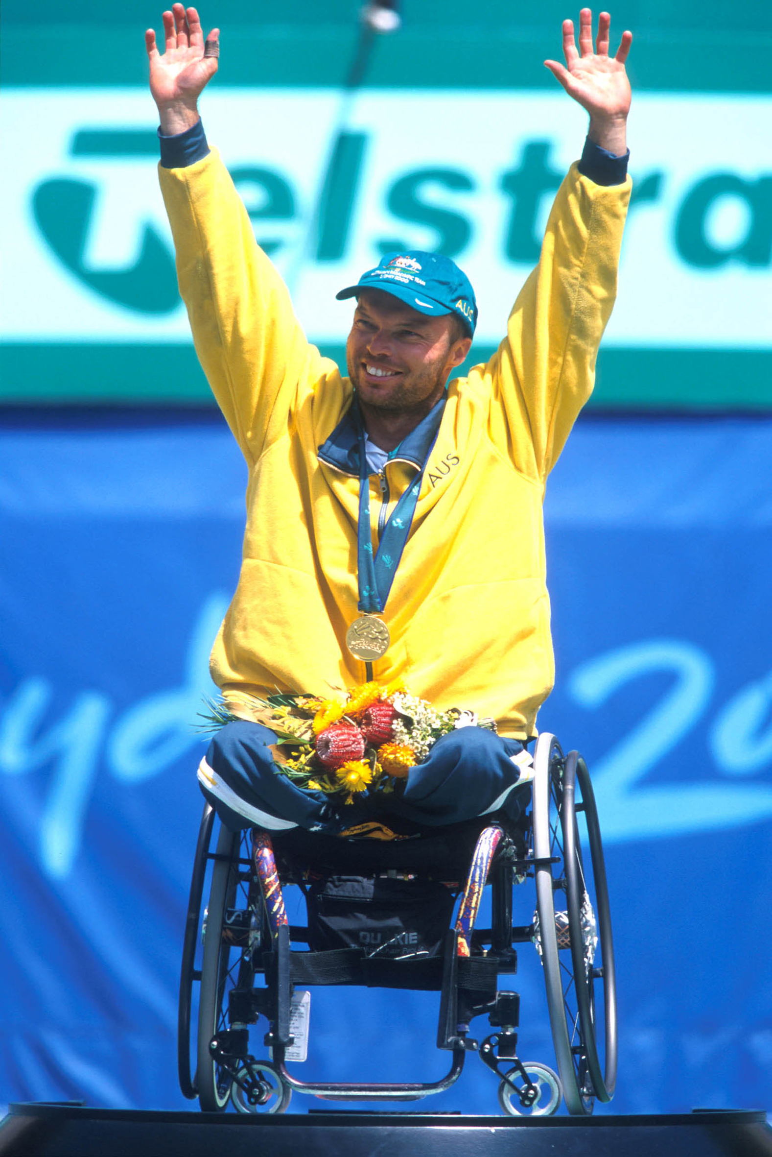 Australian wheelchair tennis player David Hall on the podium celebrating his gold medal win at the 2000 Sydney Paralympic Games